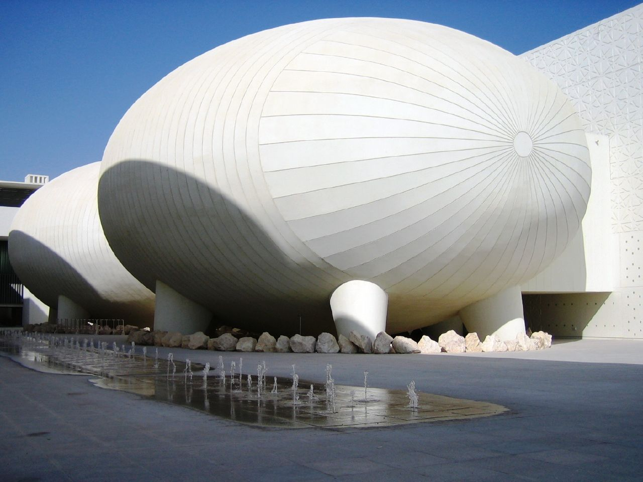 Cornell University campus in Doha, Qatar